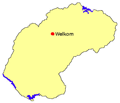 Welkom location in Free State province.